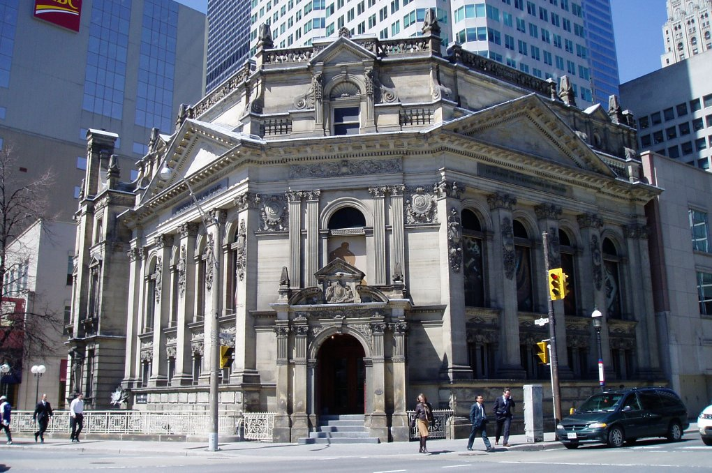 Taken by SimonP in April 2005